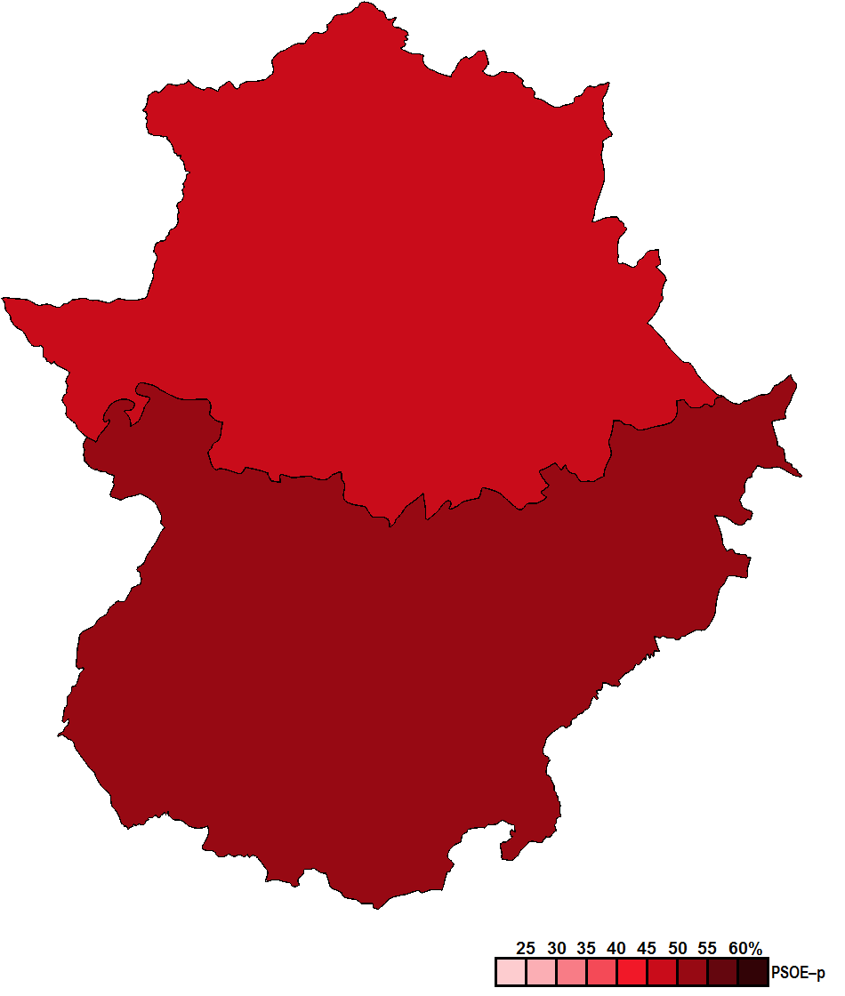 Provincial results for the 2003 Extremaduran regional election.